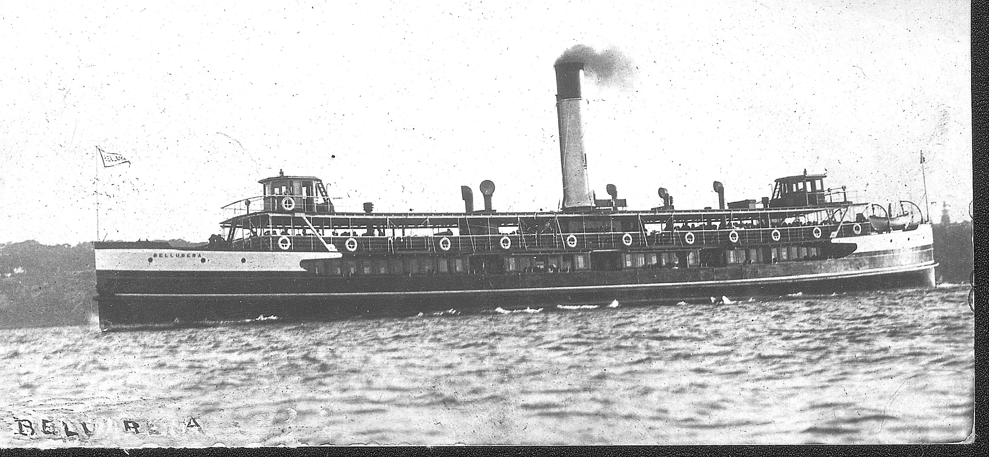 Bellubera was the third ferry of the so-called 'B' class of ferries launched on 26 April 1910, Two boilers provided steam for the two triple expansion engines which drove the single props at either end of the ferry Bellubera had two major conversions done, the first when she had her open promenade deck closed in and her single funnel replaced by two In 1936, her original steam engines were replaced by diesel